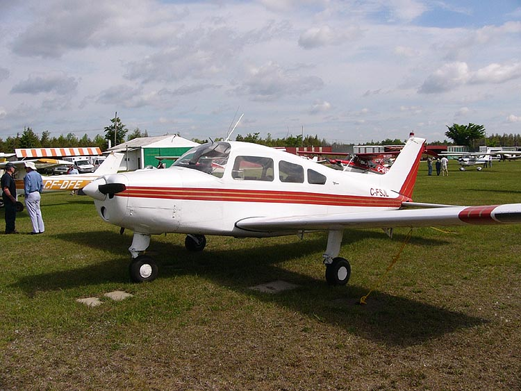 Beechcraft A23 Musketeer (C-FSJL).